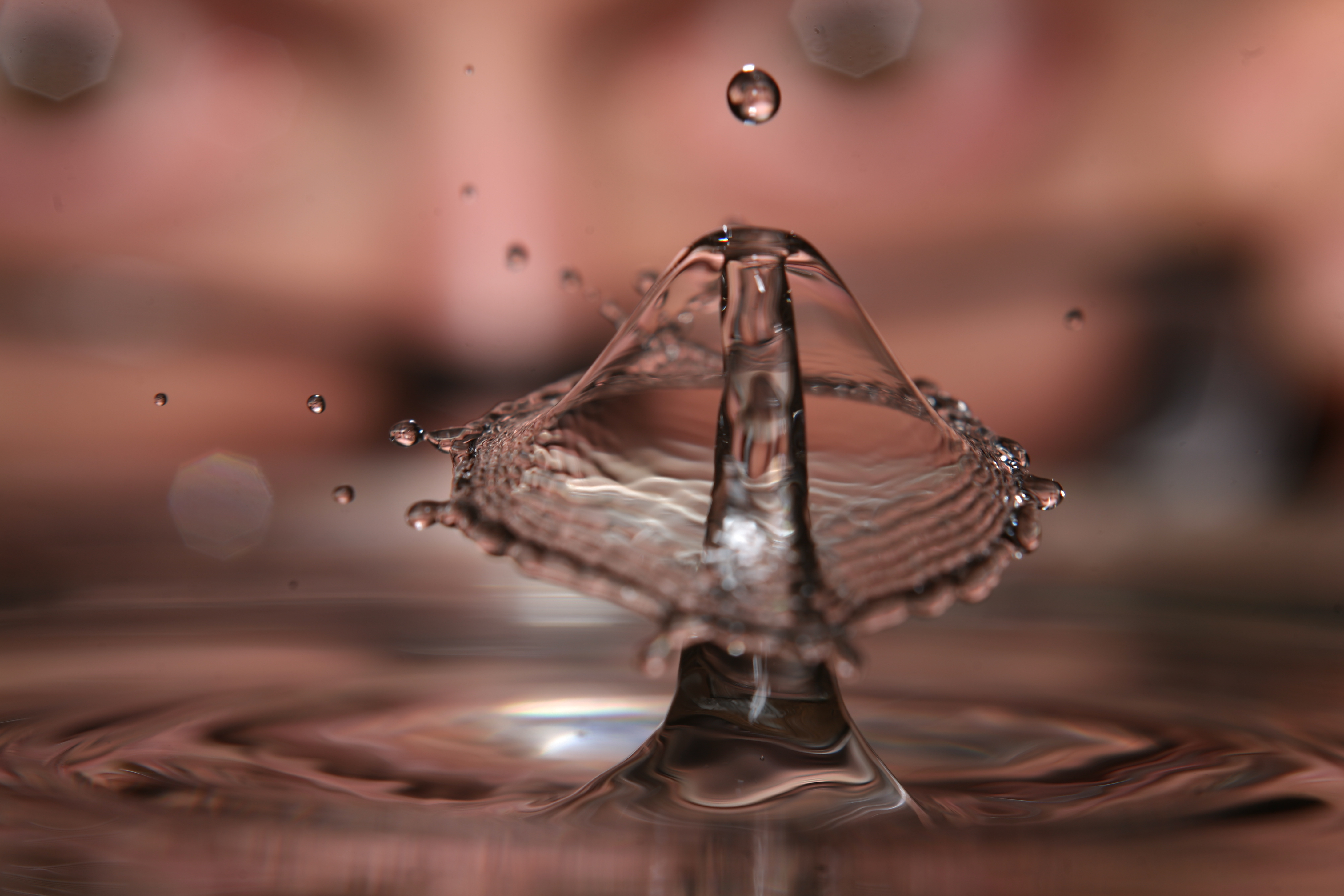 Water effect created with an electric water valve. The valve is opened twice using an electronic circuit with a 90 millisecond time delay between the two drips. The first resulting drop hits the water in a dish below, shooting a water drop upward. The second drop collides with the first drop a short distance above the dish.